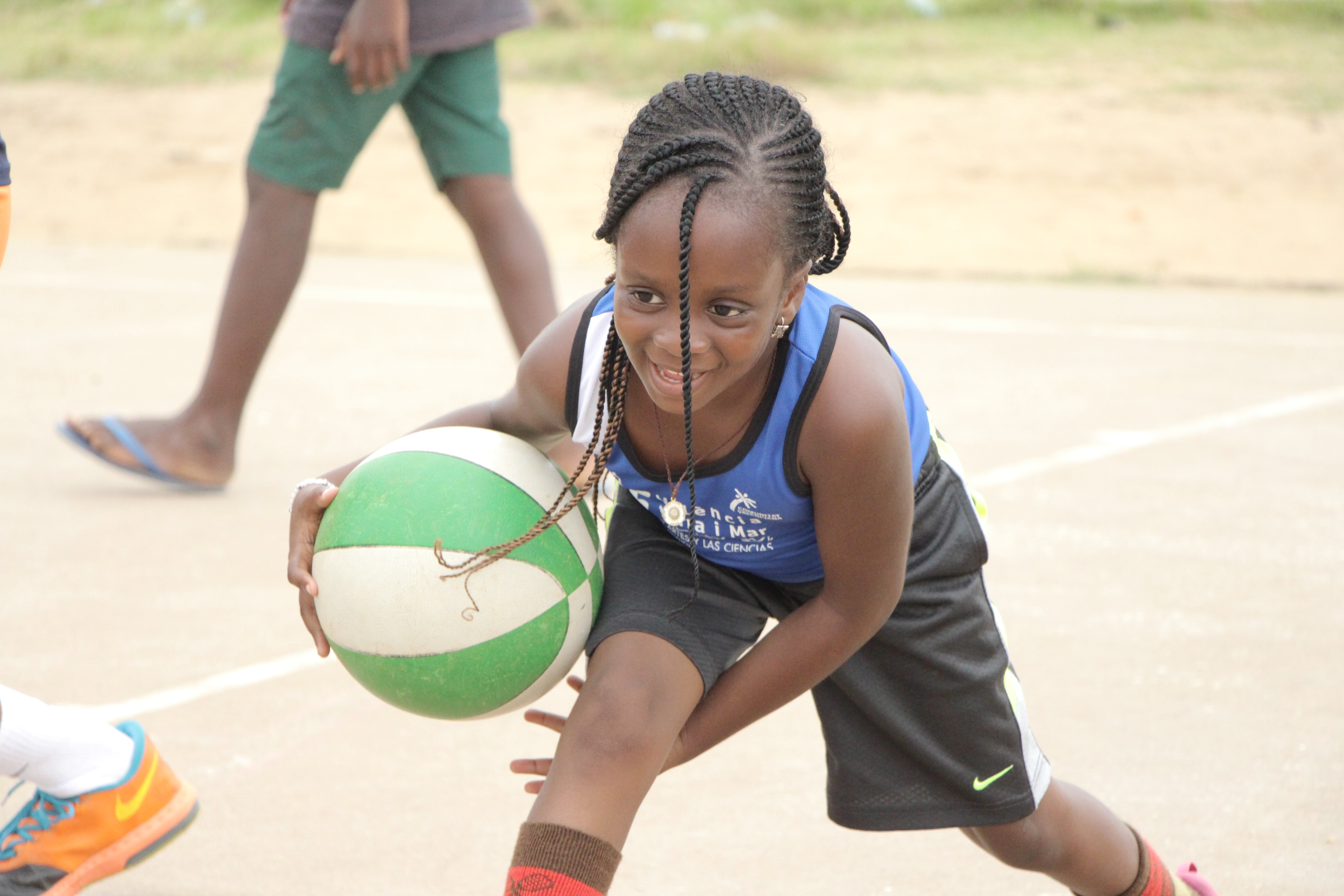 This beautiful smile on that innocent face of Mary who shows that she is not there by constraint but by love of basketball.